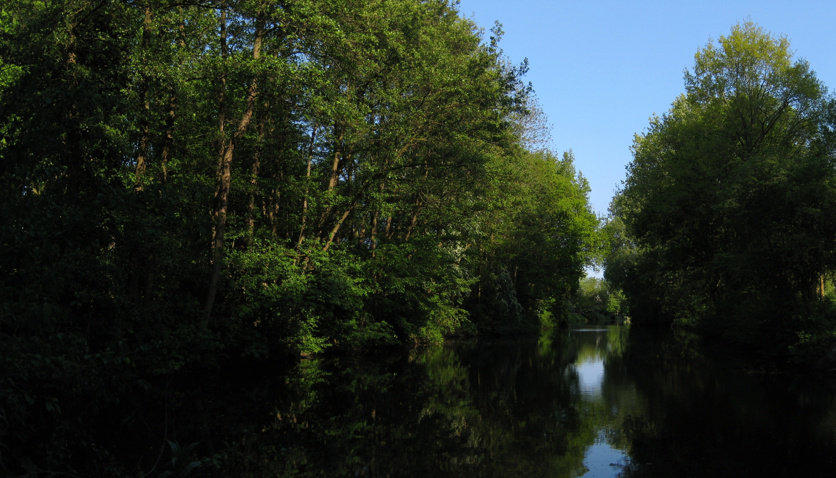 The Helperdiep, a small canal in the Dutch city of Groningen.